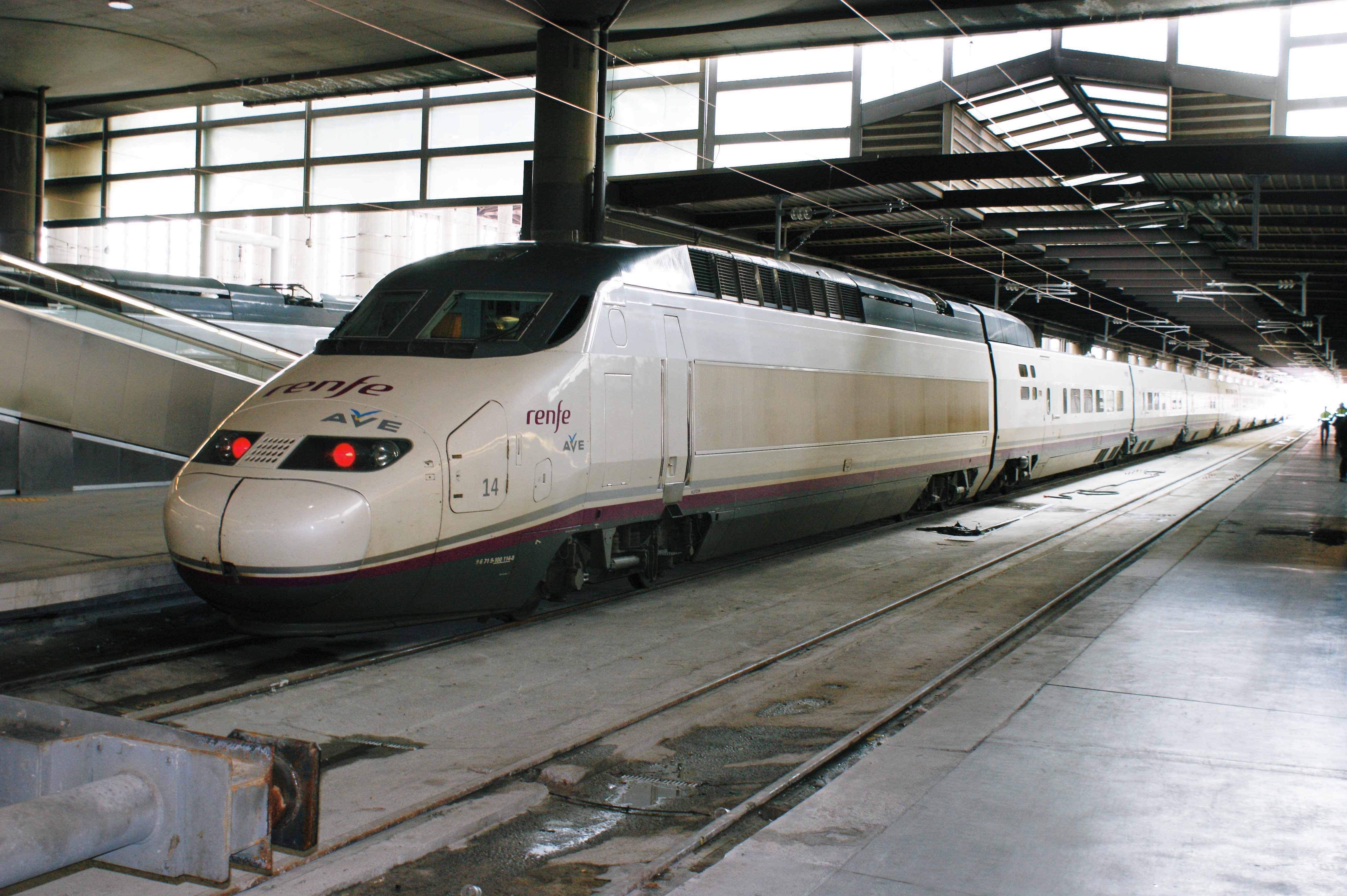 Alsthom AVE at Atocha, 4/10.